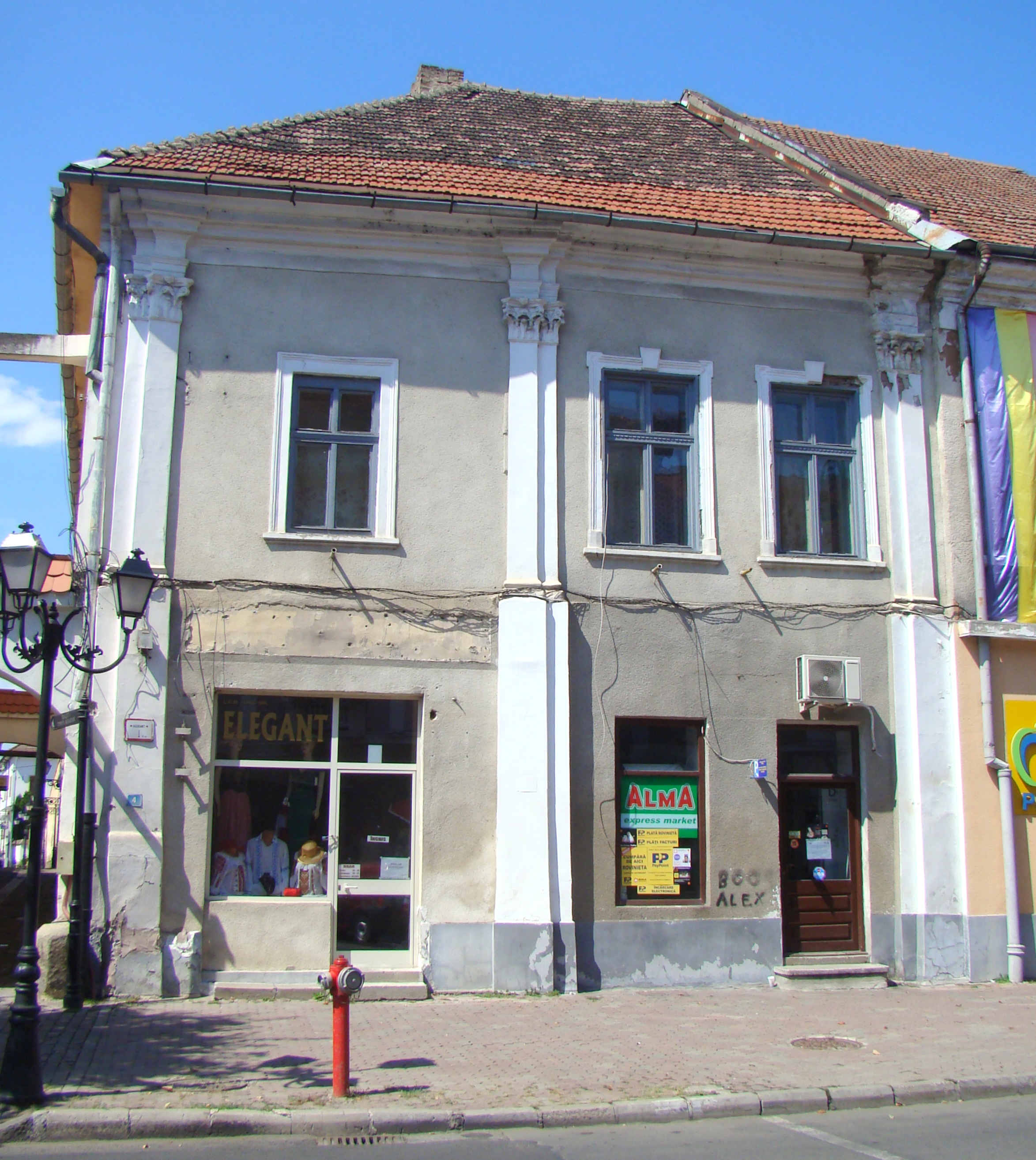 House, historic monument, in Bistrița, Gheorghe Șincai street 4